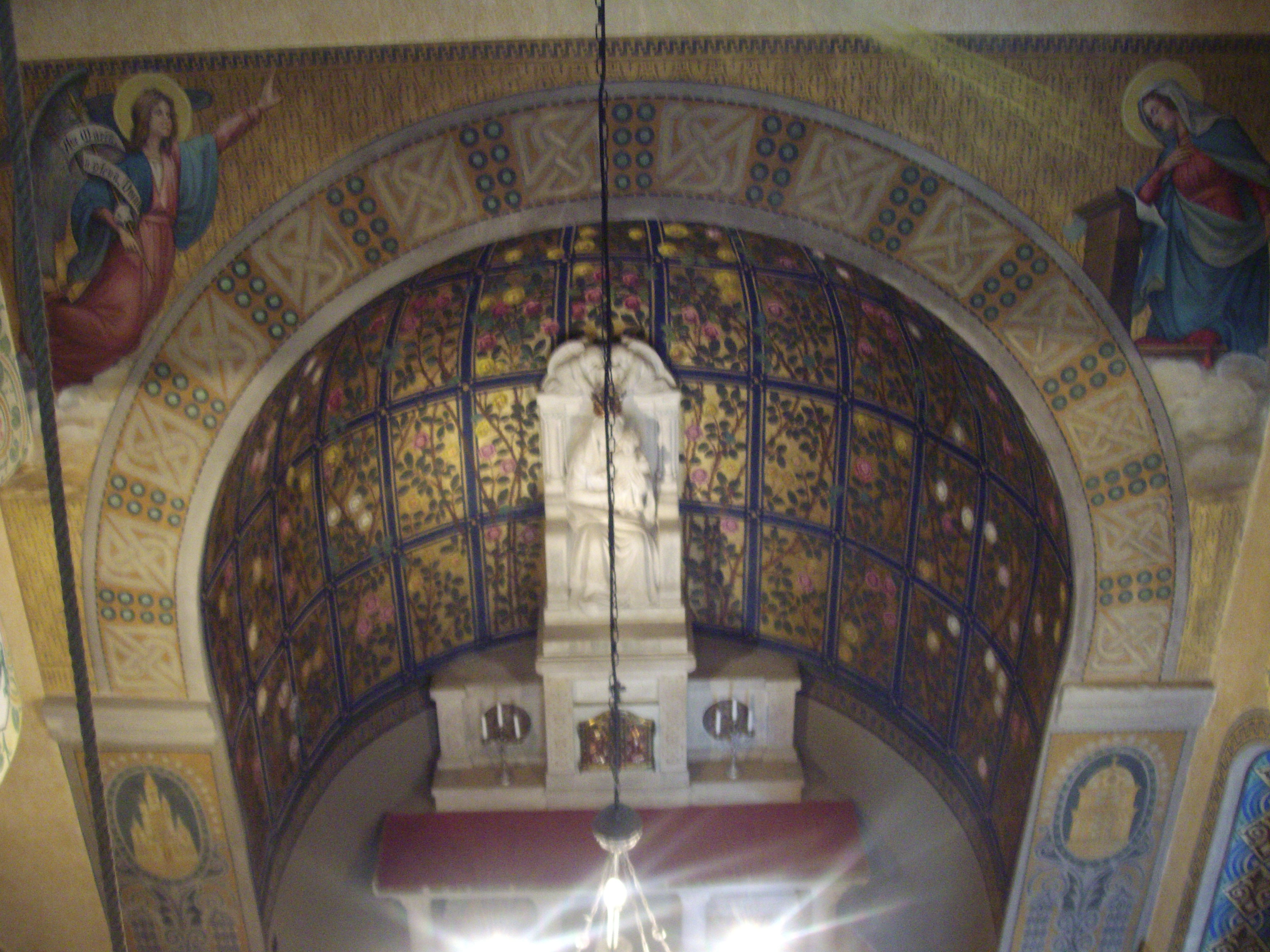 Seitenkapelle der Klosterkirche Schänis